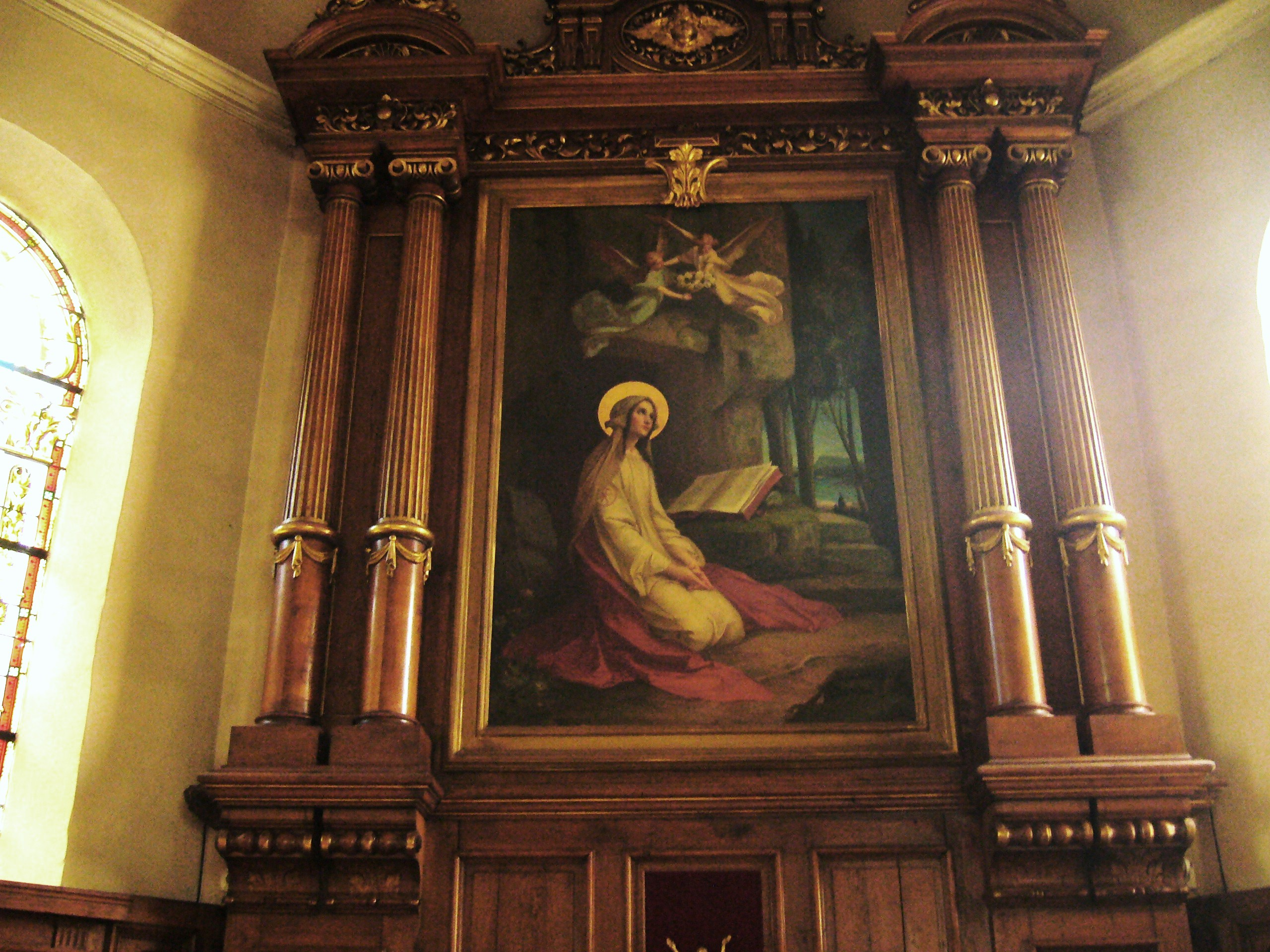 Saint Rosalie(1899) by Martin Feuerstein (Barr, 01. 06. 1856 - Munich, 02. 13. 1931), in the church of Rombach-le-Franc.